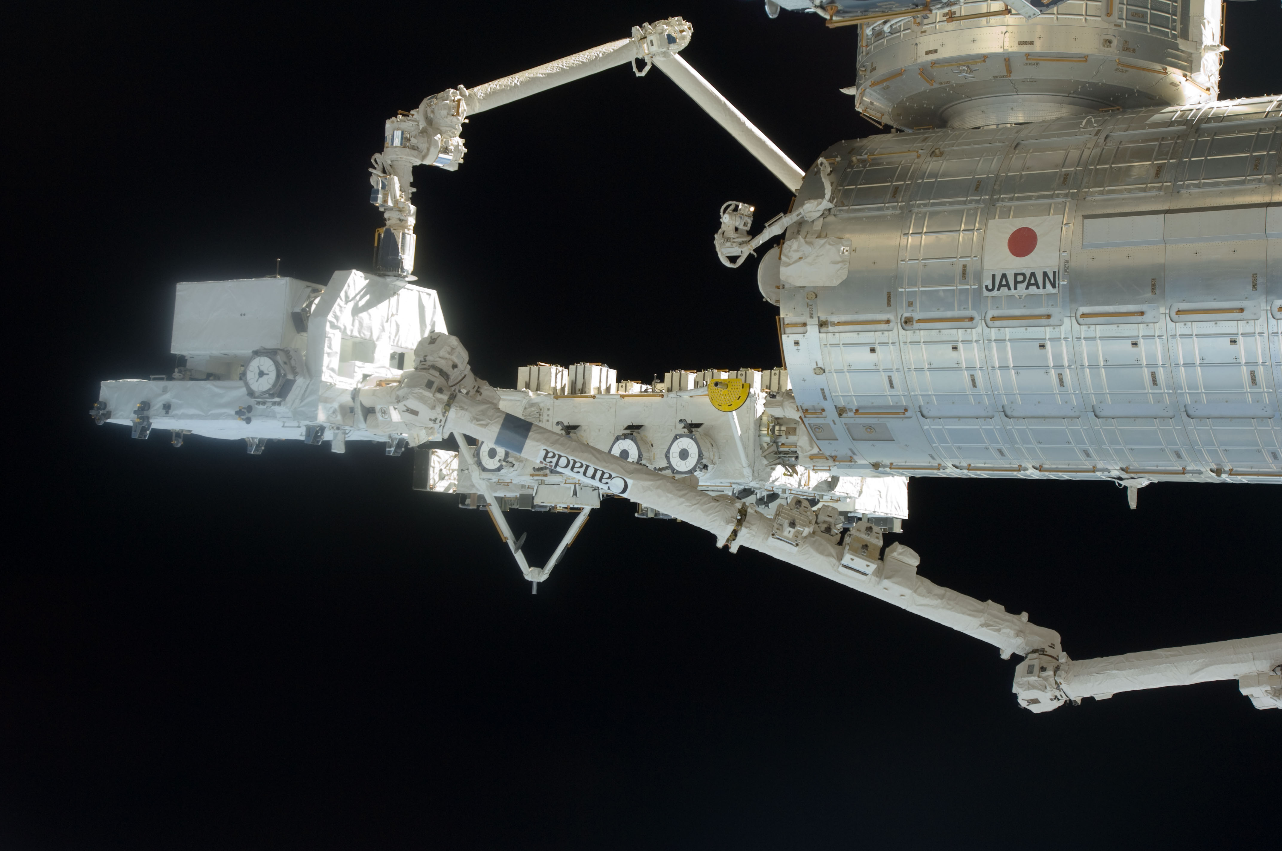 The JEM Robotic Manipulator System (JEM-RMS) on the exterior of the Kibo laboratory of the International Space Station and the station's Canadarm2 are featured in this image photographed by an Expedition 20 crew member on the station. European Space Agency astronaut Frank De Winne and NASA astronaut Nicole Stott, both Expedition 20 flight engineers, used the controls of the JEM-RMS in Kibo to grapple the Exposed Pallet (EP) from the station's Canadarm2 and berth it to the JEM Exposed Facility / Exposed Facility Unit 10 (JEF EFU10).